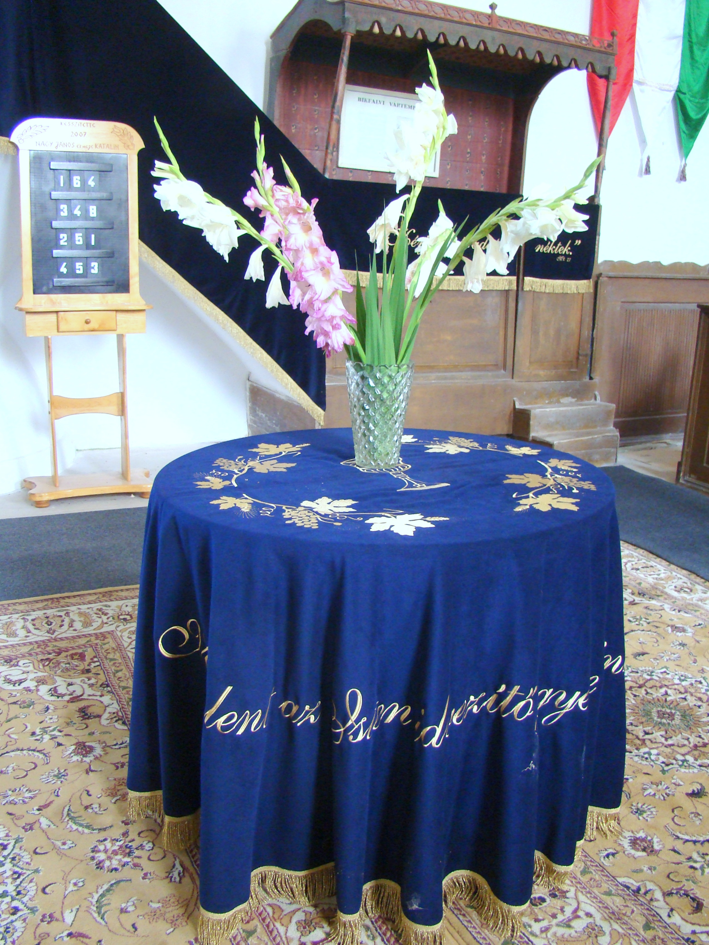 God's Table in the reformed church in Bicfalău, Covasna County, Romania 01